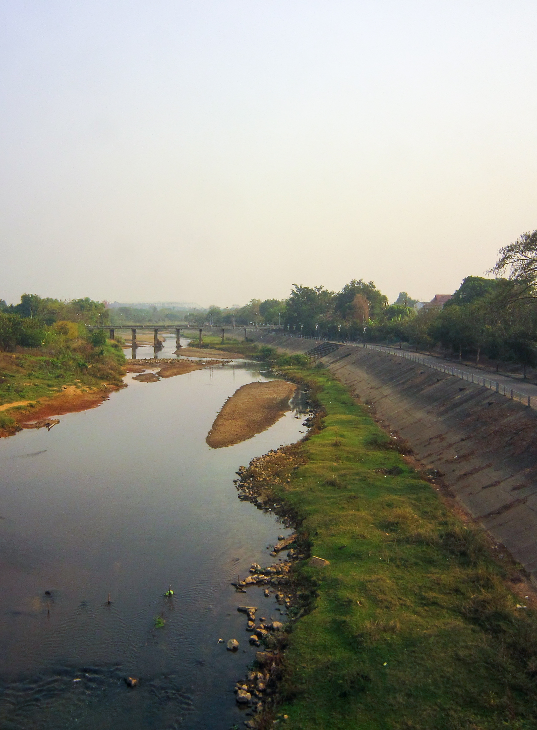 Wang River at Lampang. Photo taken from the railway bridge, looking north, during the dry season.